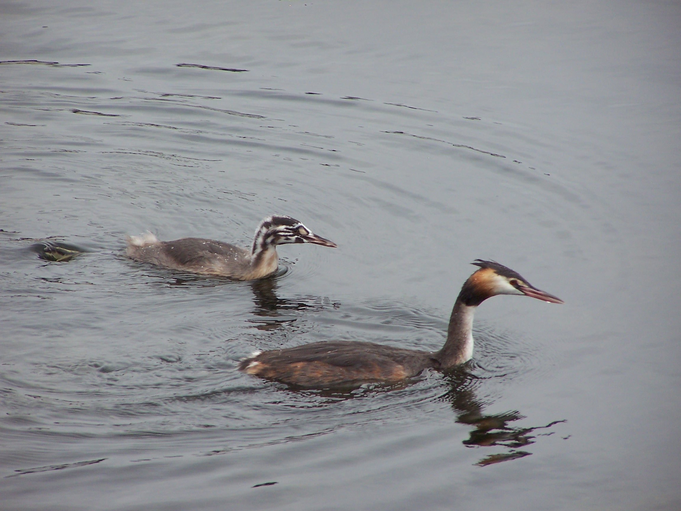 Great Crested Grebe (Podiceps cristatus), adult and young.